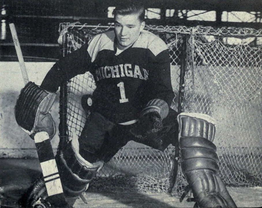 Photograph Willard Ikola